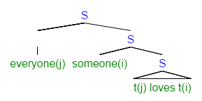 This is a syntactic tree of the sentence, everyone loves someone.